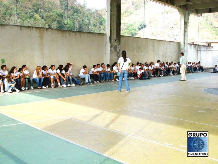 Eliseu realizando um programa de orientação num CIEP.